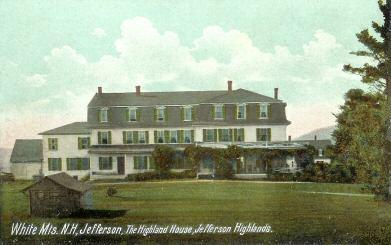 Highland House, Jefferson, NH; from a c. 1910 postcard.